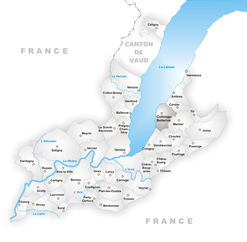 Map of the municipality of Collonge-Bellerive (Canton of Geneva, Switzerland).